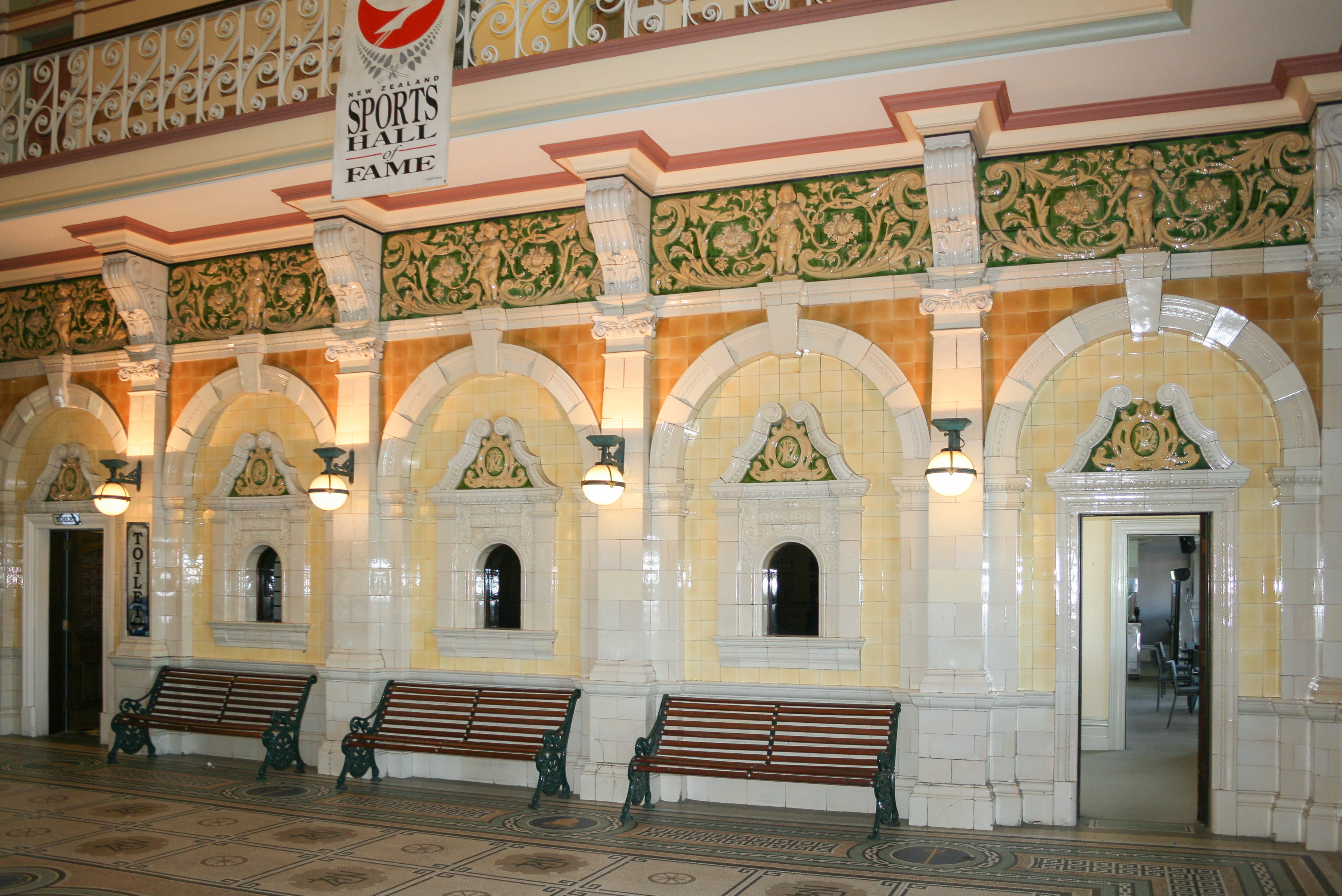 Dunedin Railway Station, Dunedin, New Zealand